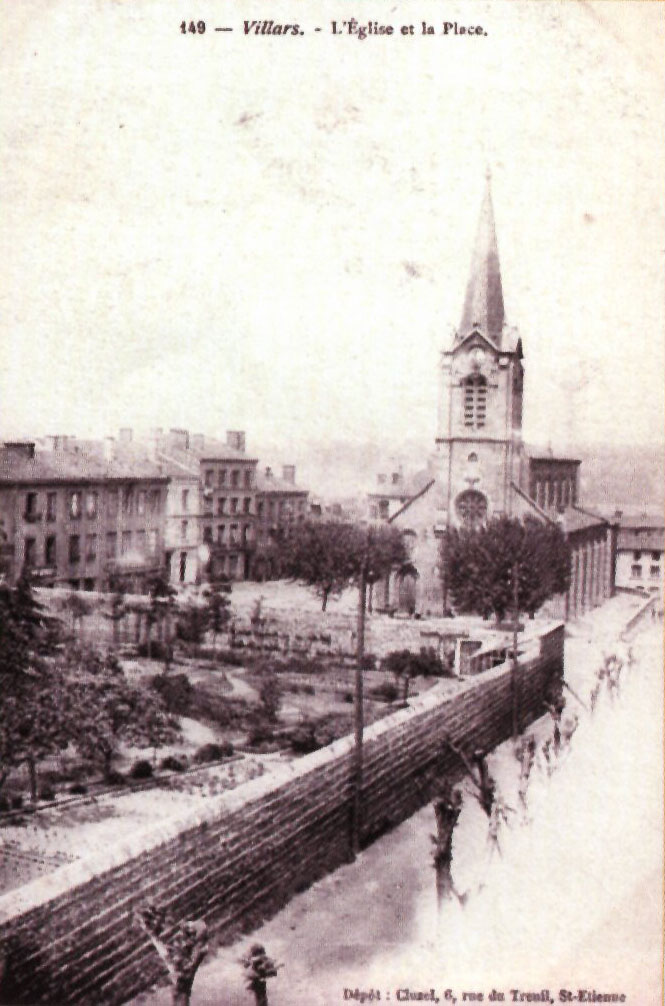 Church in 1900